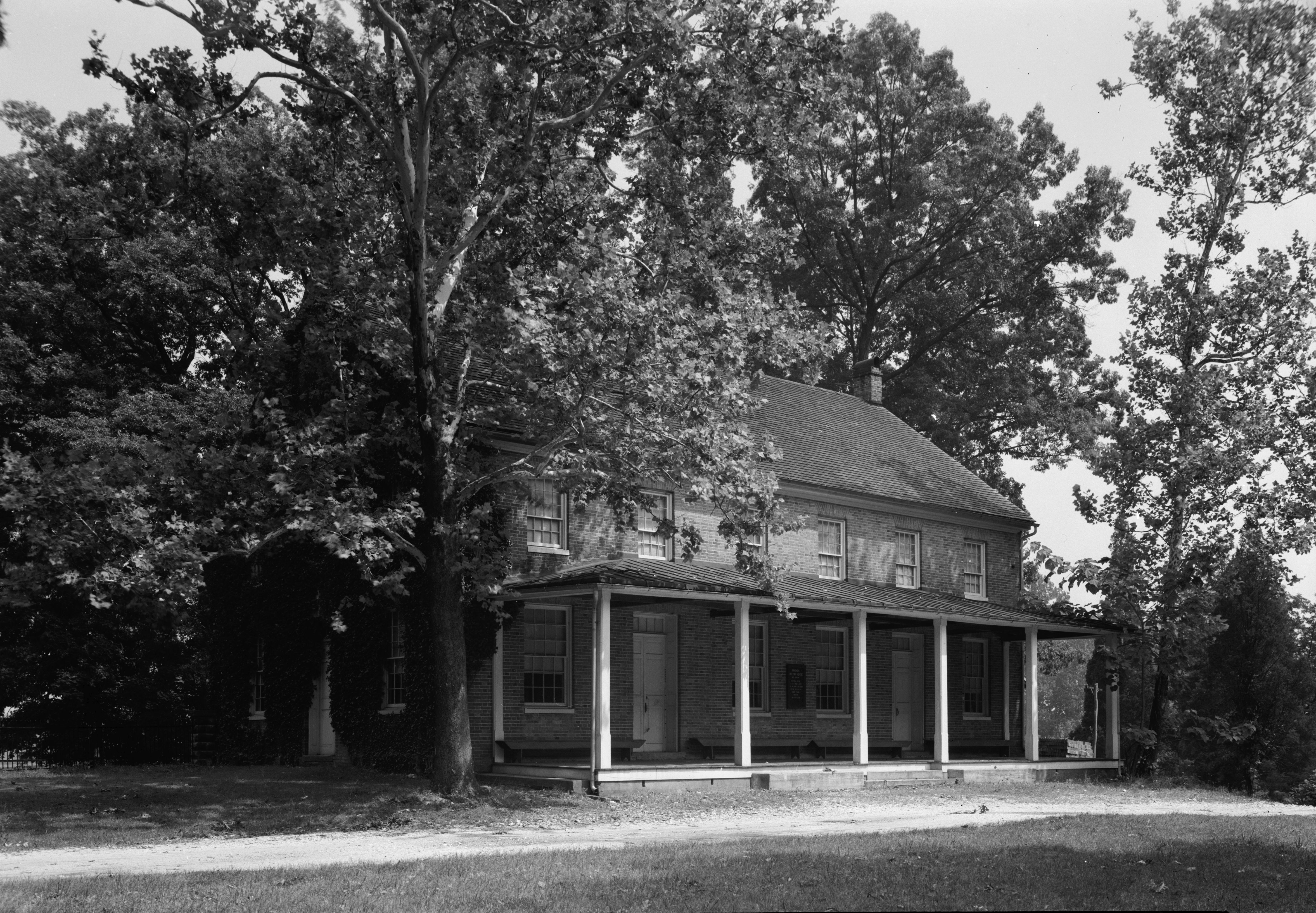 Front of the Sandy Spring Friends Meetinghouse, located at the intersection of Maryland Route 108 and Meetinghouse Lane in Sandy Spring, Maryland, United States. Built in 1817, it is listed on the National Register of Historic Places.